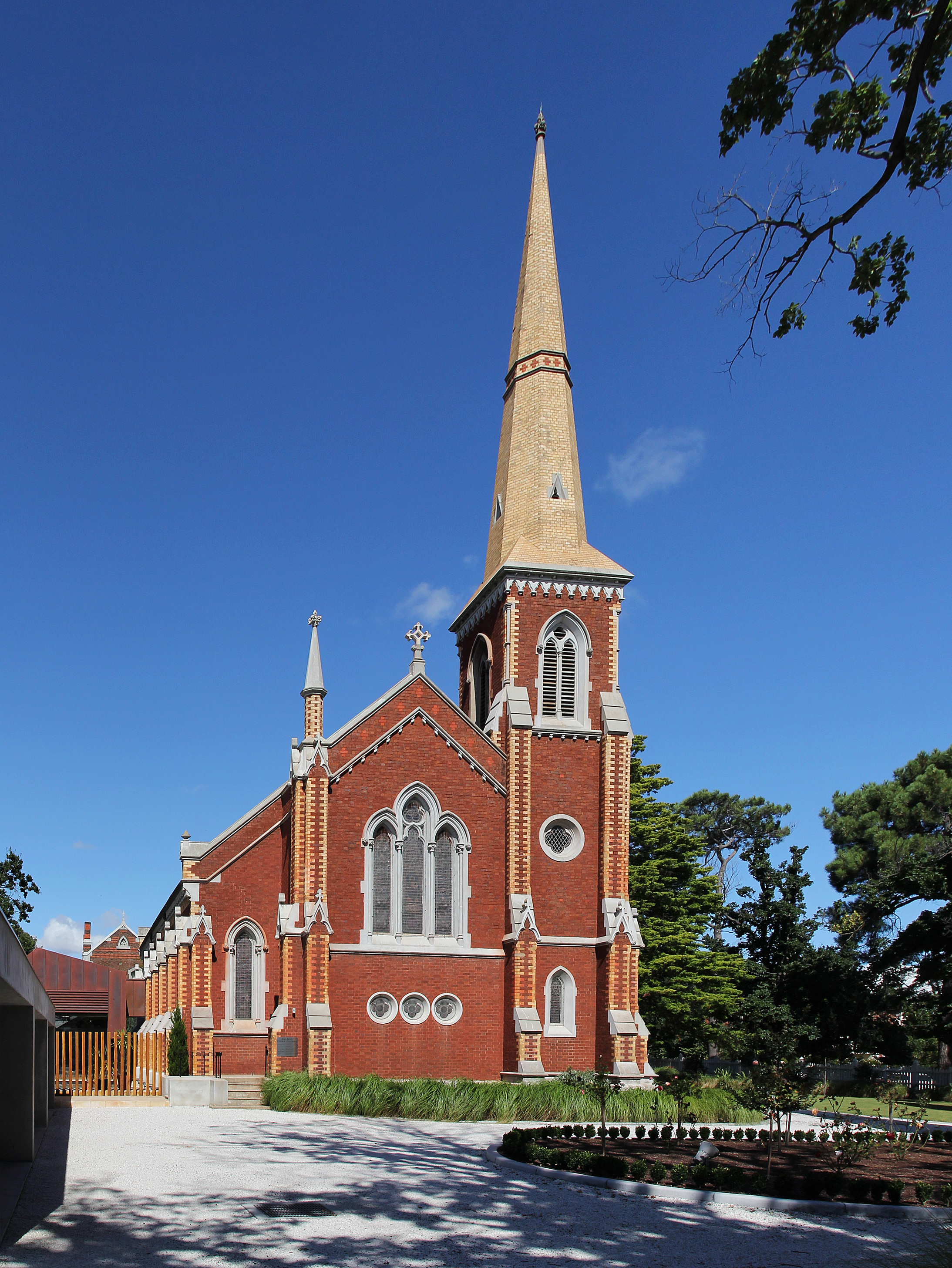 John Knox church (built 1876) on the corner of New Street & North Road, Brighton, Victoria. Original Architect - Charles Webb